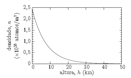 Densidade de átomos n em função da altura h